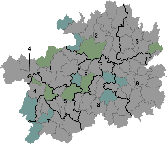 Map of prefectures of Guizhou Province